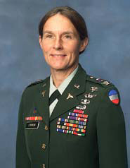 Official DA photo of Brig. Gen. Rhonda Cornum